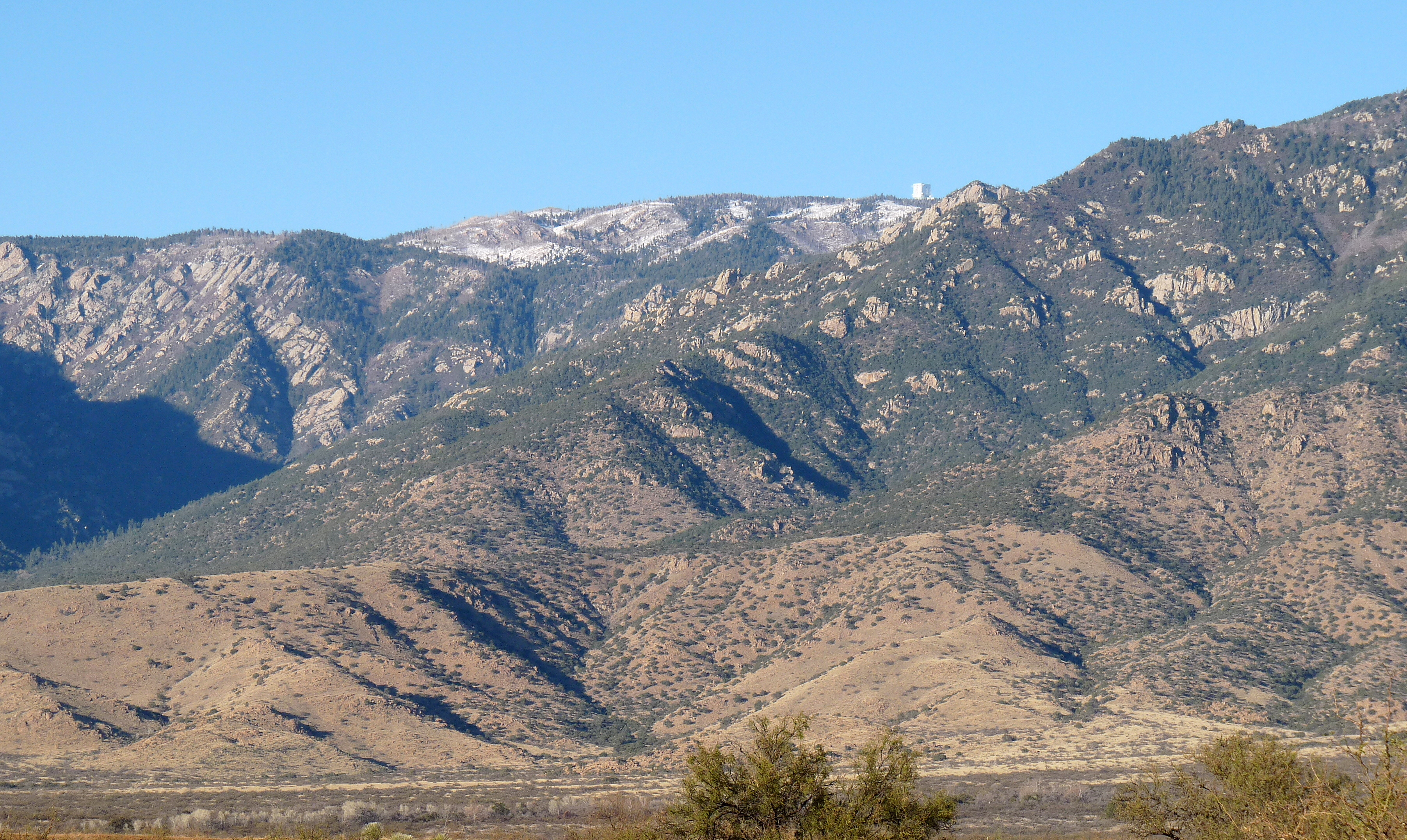 The image represents the Large Binocular Telescope on the top of the Pinaleno Mountains range, part of the Madrean Sky Islands enclave mountains structure, photographed from south from a location south-west of Safford, Graham County, on the Arizona State Route 266, close to the of the route, between Safford and Willcox